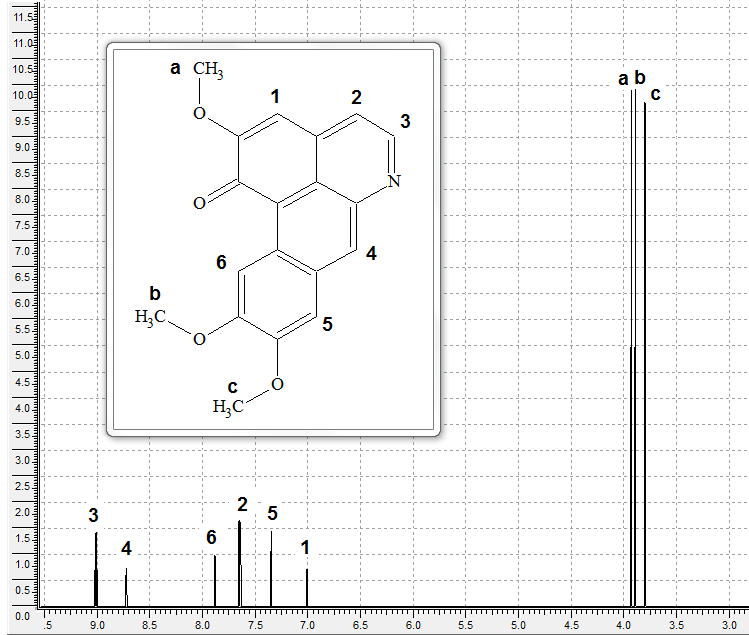 Pancoridine H1-NMR spectrum